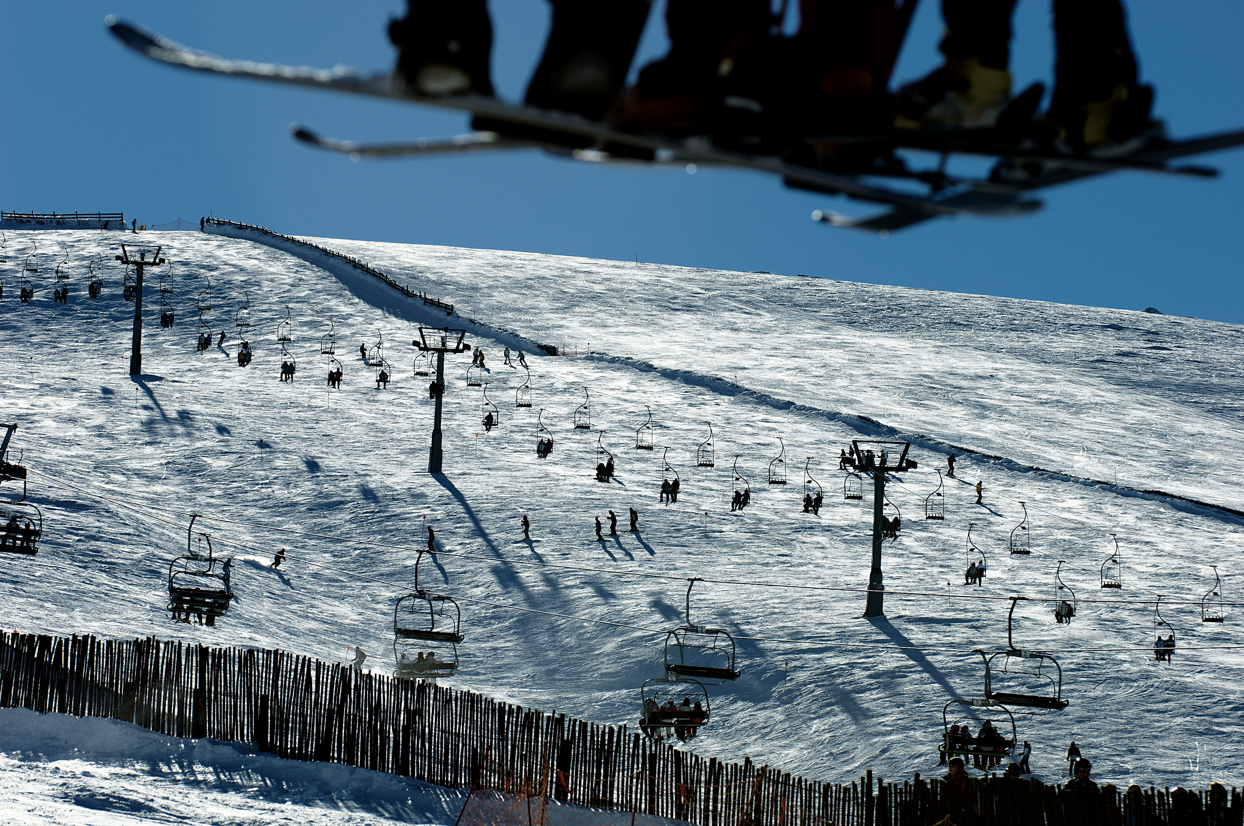 Skiing This photograph can be used for publications, including this copyright statement: “©PromoMadrid, author Max Alexander”. Esta fotografía puede usarse en publicaciones, incluyendo la declaración “©PromoMadrid, autor Max Alexander”.